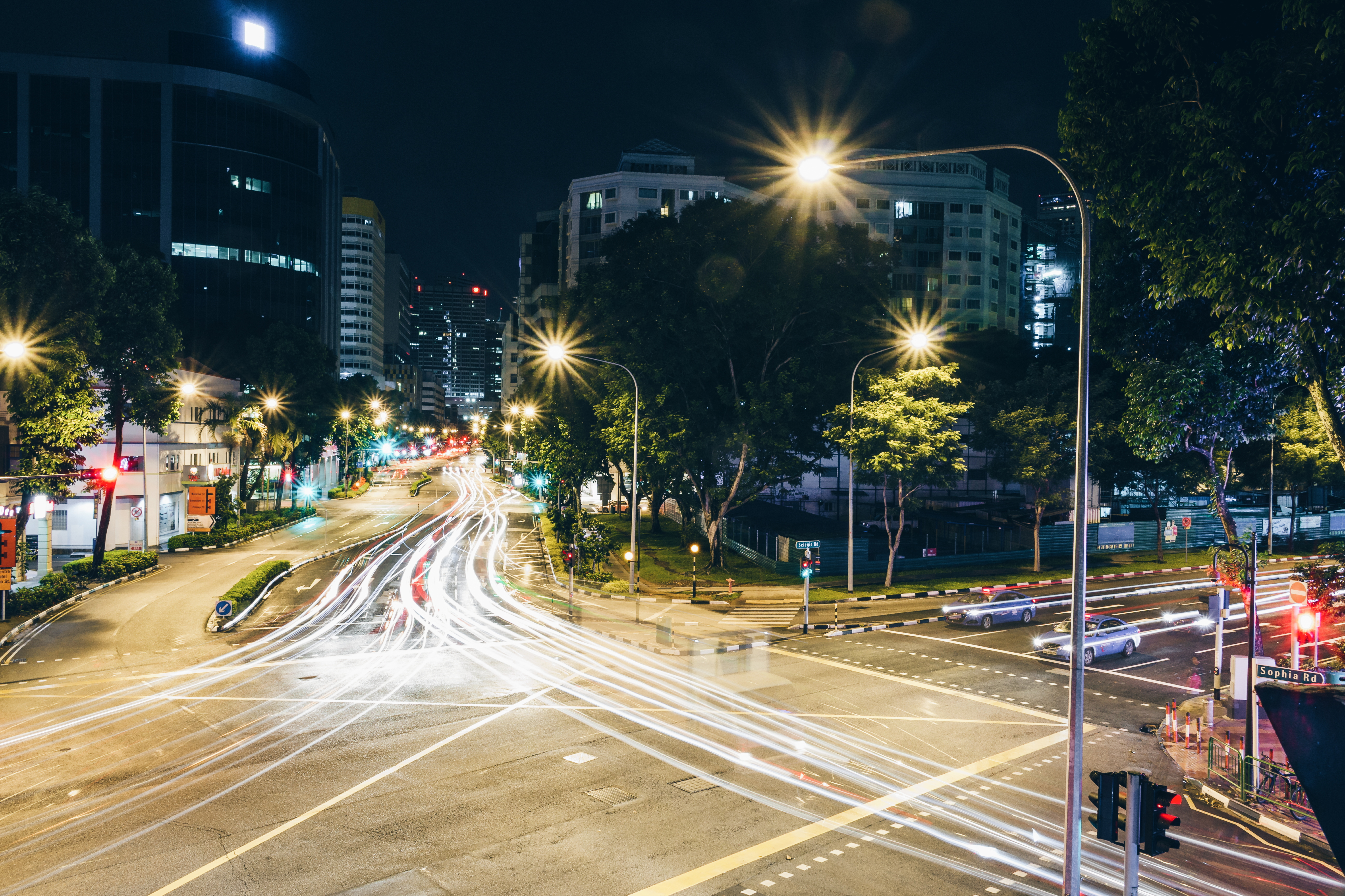 Middle Road, Singapore